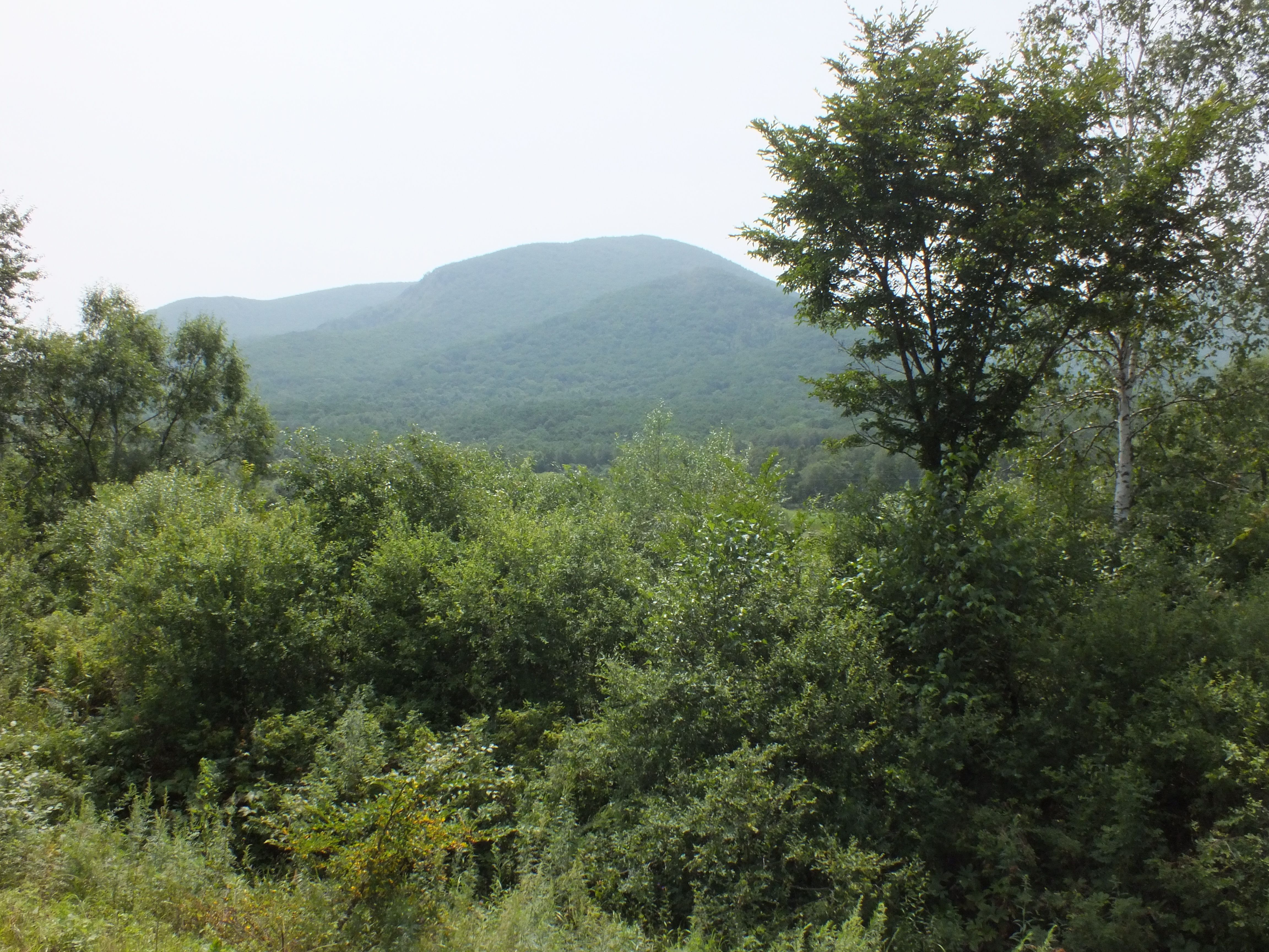 Olga Bay